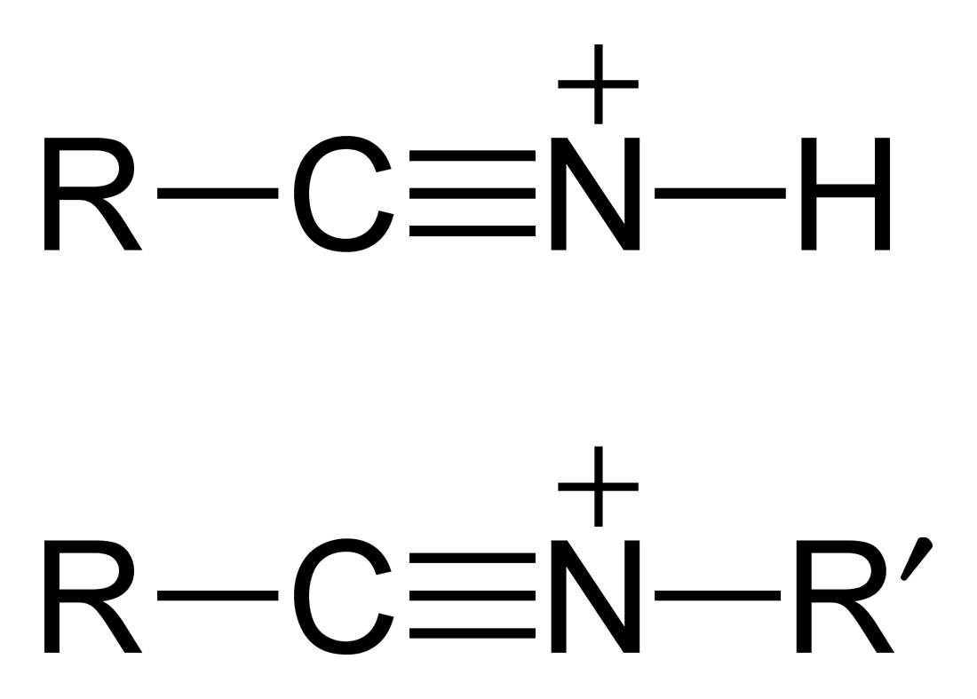 General structures of nitrilium ions. Structure drawn in ChemDraw Ultra 11.0. This image shows some kind of formula that could be converted to TeX. Storing formulas as images makes it harder to change them. TeX also helps making sure that they all use the same font and size. If you know how to set this formula in TeX, use this template with a parameter Use TeX|1=Here goes the formula Tips when using this template: Do put spaces in between adjacent s and adjacent s Do include the 1= Do not include the tags; by default: ... tags will be added later If this is a chemical equation. add |2=chem to use ... tags instead |2=math chem is an option if needed for color or alignment, but do include your \ces Any other values in the second parameter will be ignored R − C ≡ N ⊕ − H R − C ≡ N ⊕ − R ′ {\displaystyle {\begin{array}{l}{\ce {R-C{\equiv }{\overset {\oplus }{N -H \\{\ce {R-C{\equiv }{\overset {\oplus }{N -R' \end{array }